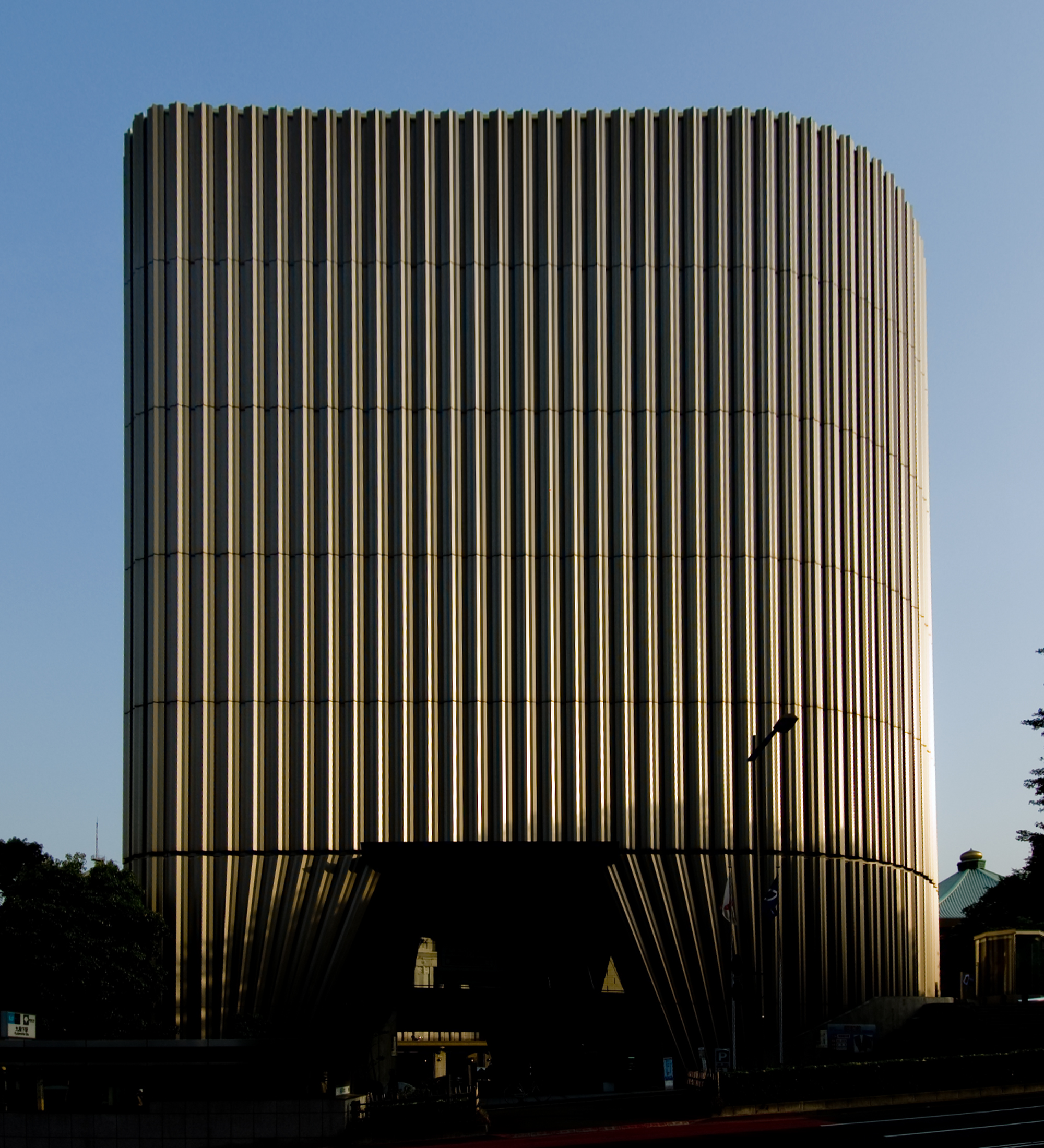 Showa-kan, at Kudanshita Tokyo Japan, design by Kiyonori Kikutake in 1999.